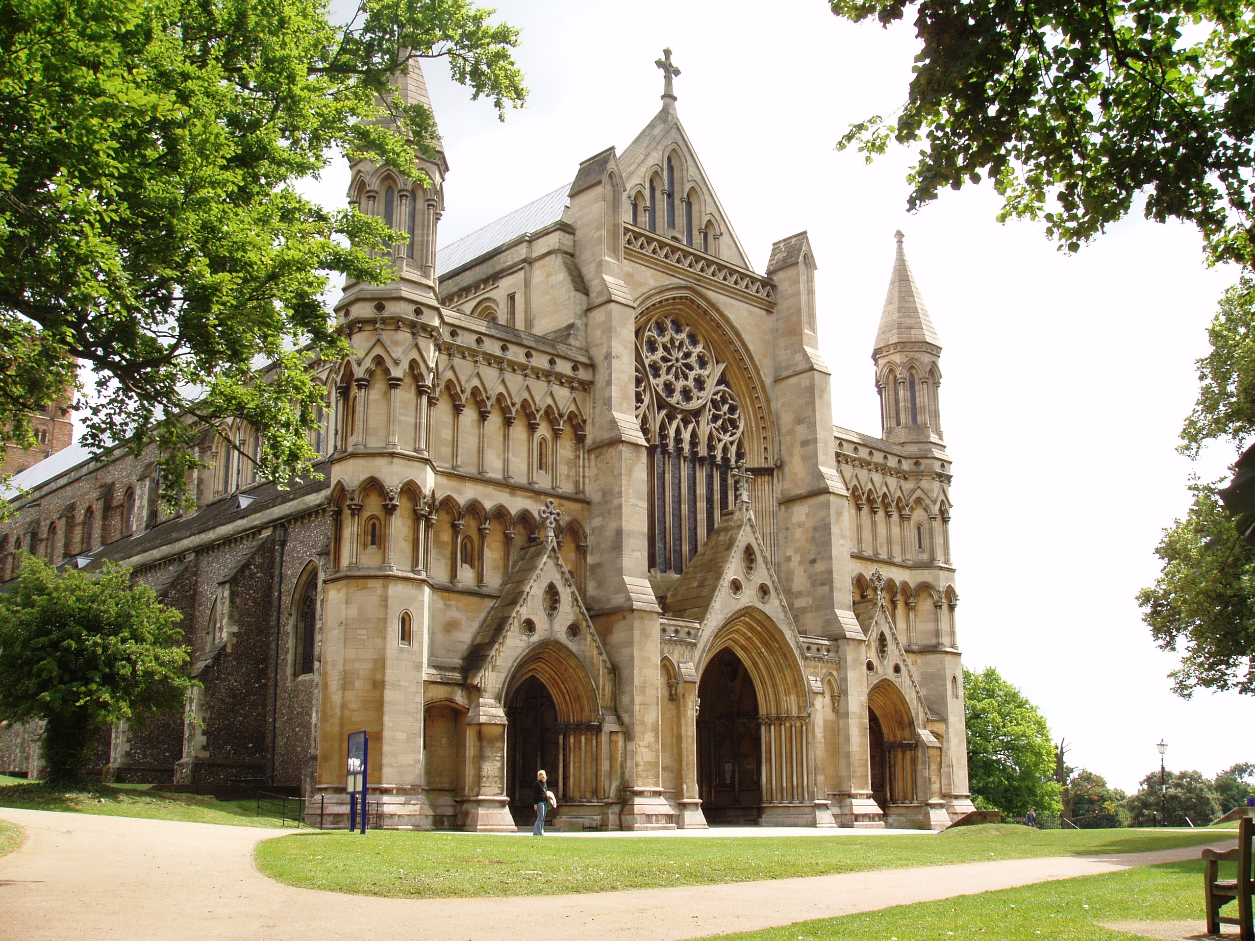 St Albans Cathedral.